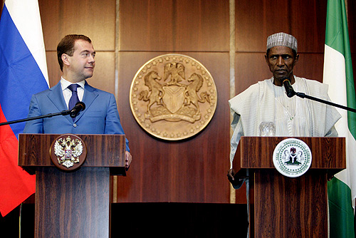 ABUJA. Joint News Conference with President of Nigeria Umaru Yar’Adua following Russian-Nigerian Talks.